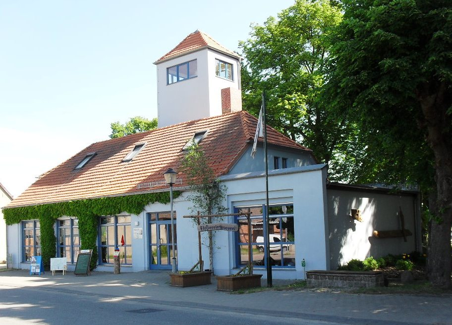 Timber Rafting Museum in Lychen, Germany